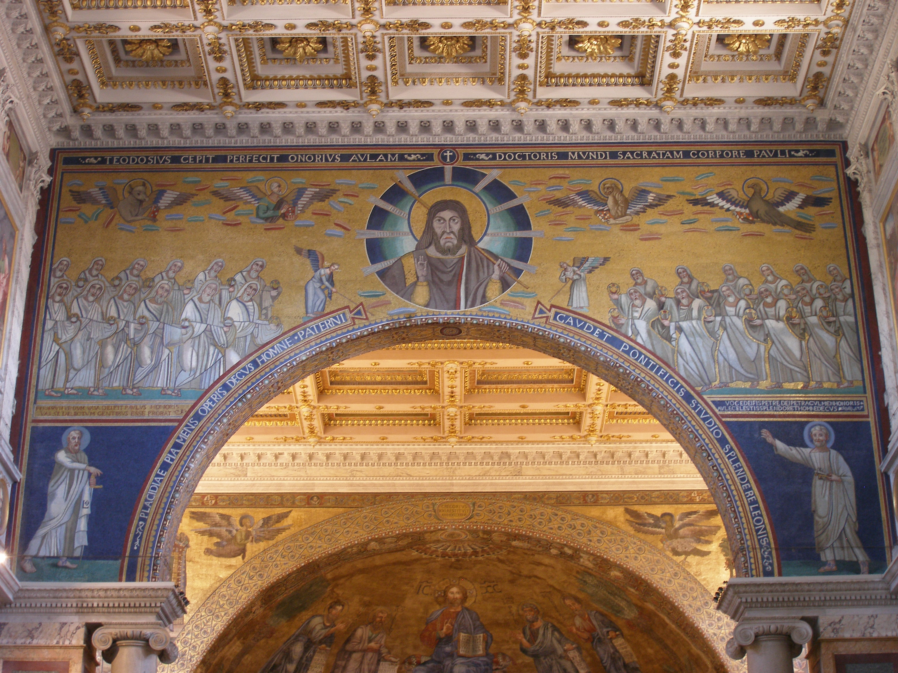 Rom, Interior of Basilica of Saint Paul Outside the Walls